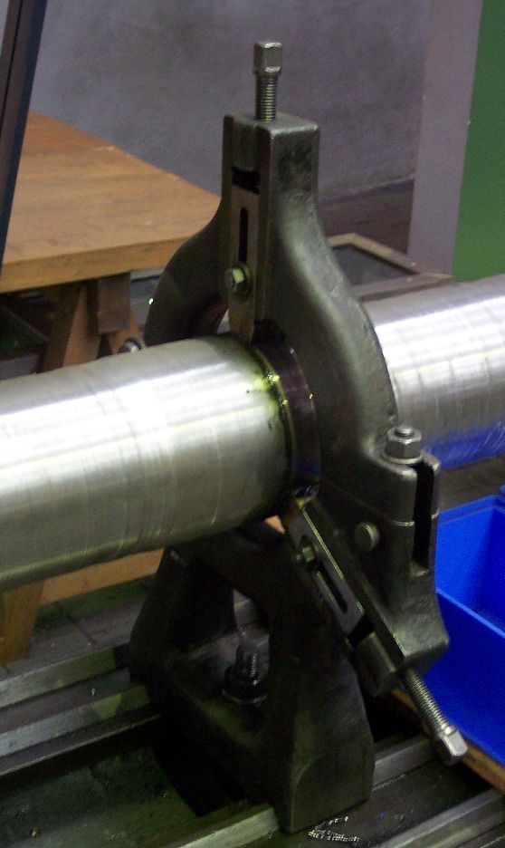 A steady rest from 1936.